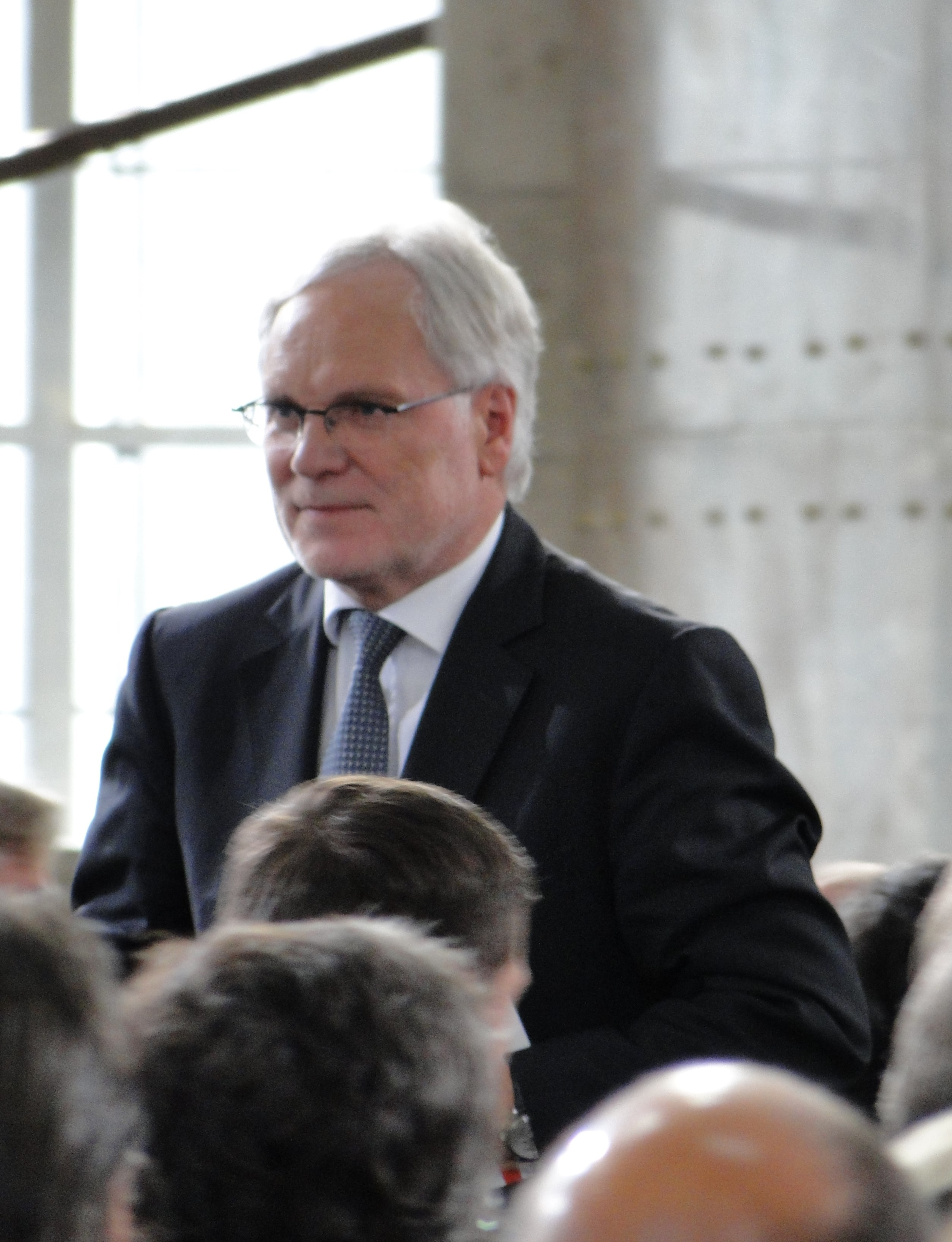 Markus Schaechter, director of "ZDF" ("Second German Television"), at ceremony (2009) of "Peace Prize of the German Book Trade", "Paulskirche" in Frankfurt am Main